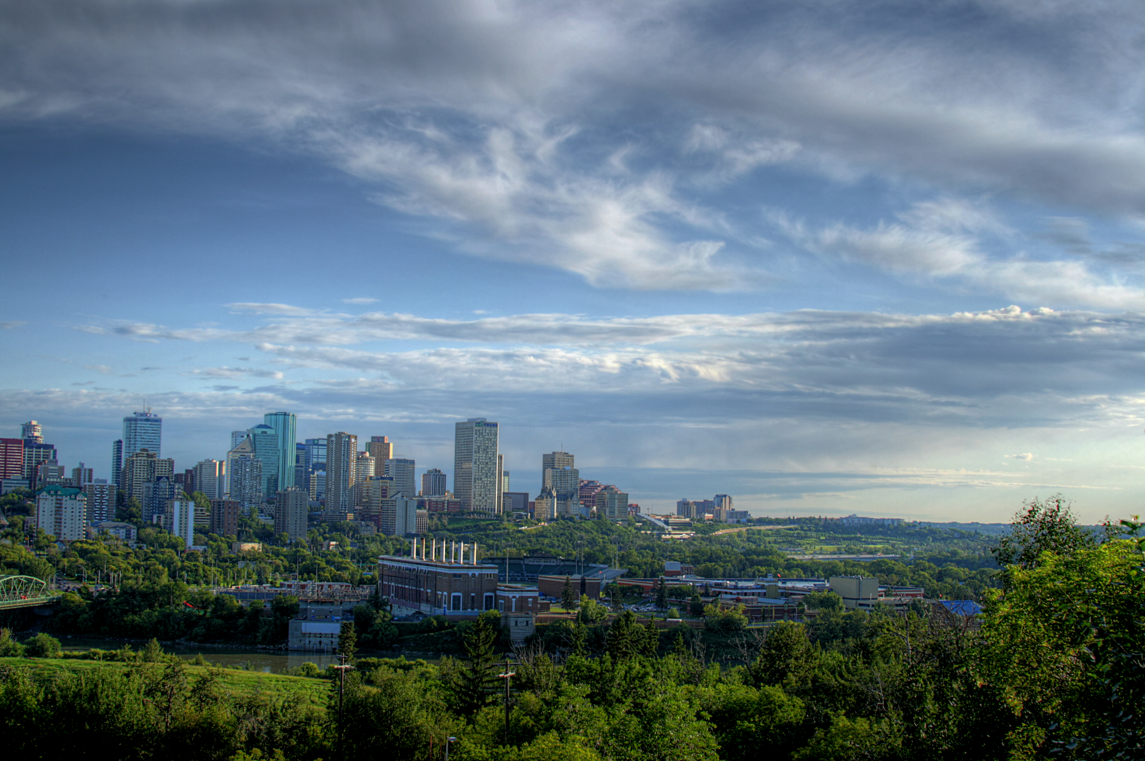 The North Saskatchewan River Valley near downtown Edmonton.